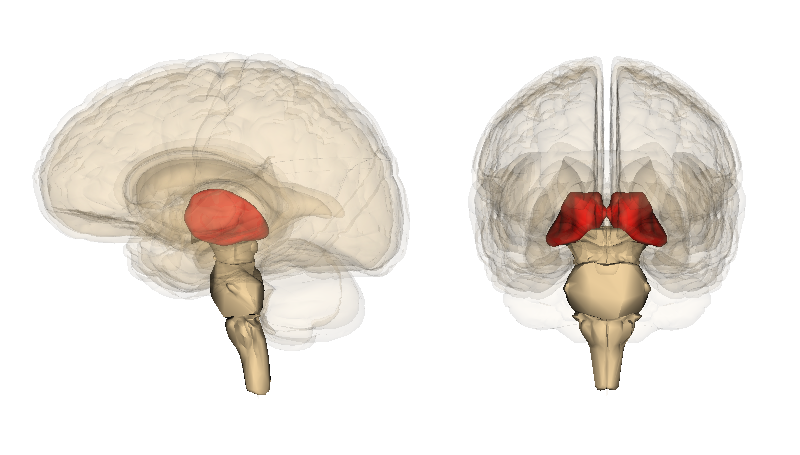 thalamus. Images are from Anatomography maintained by Life Science Databases(LSDB).